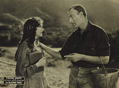 Still shot from the 1921 film, "The Blazing Trail", showing Frank Mayo and Mary Philbin